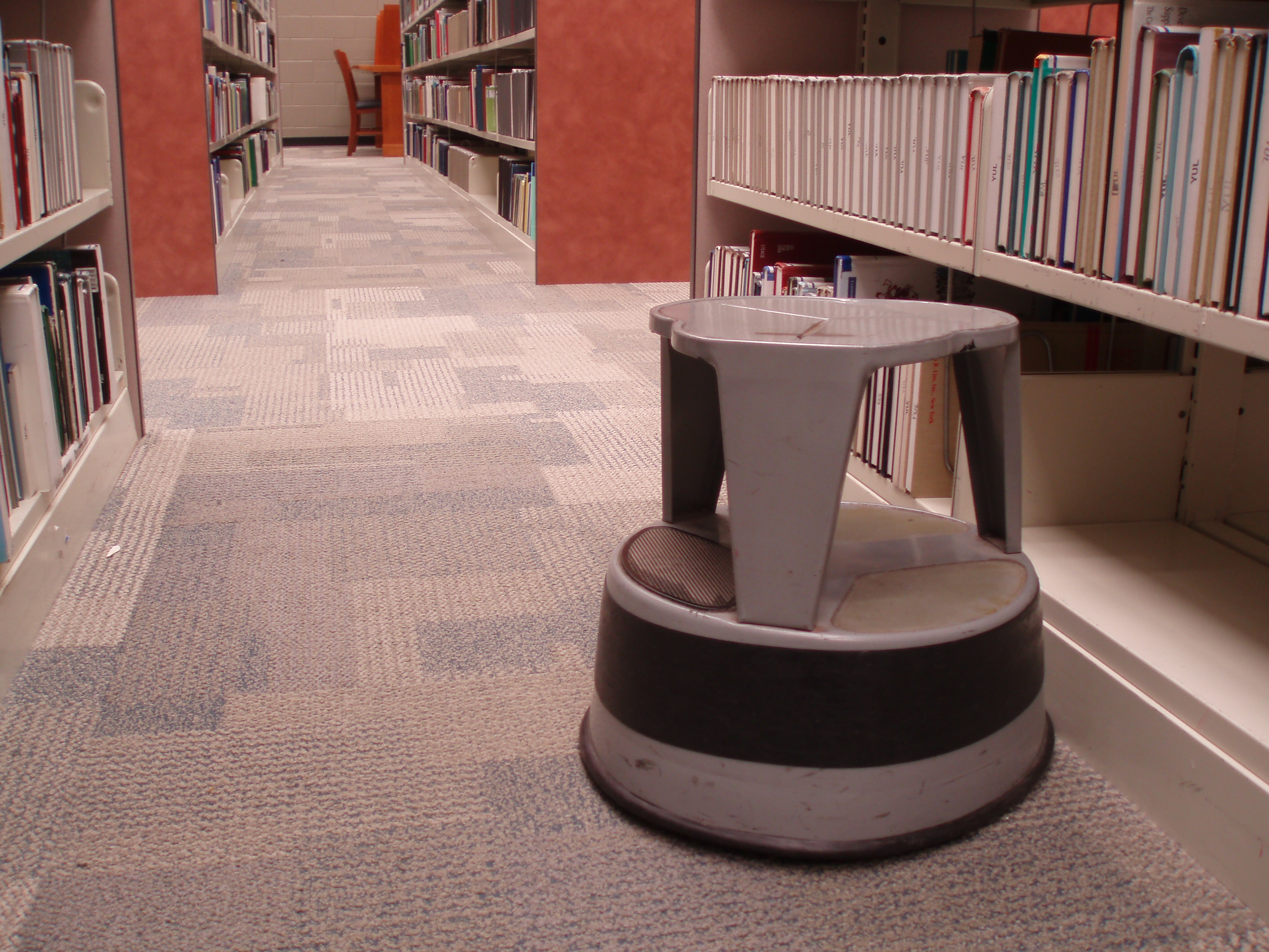 Library stool, Steacie Science and Engineering Library at York University